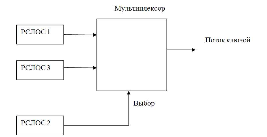 Generator